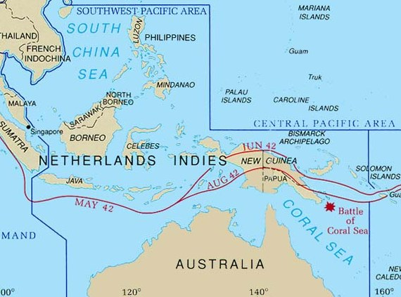 Edited/cropped version of Pacific Theater